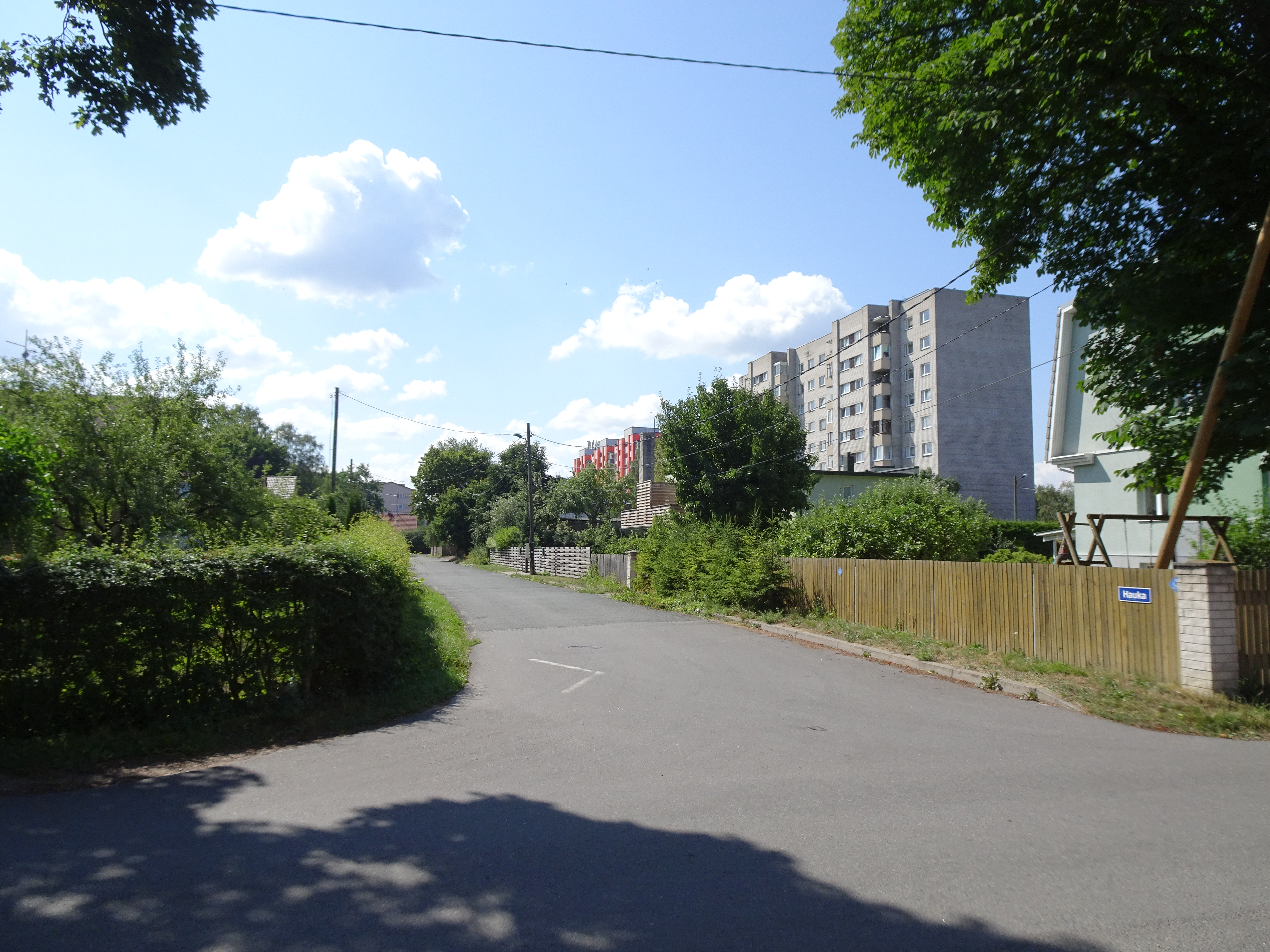 Hauka Street in Tallinn, Estonia